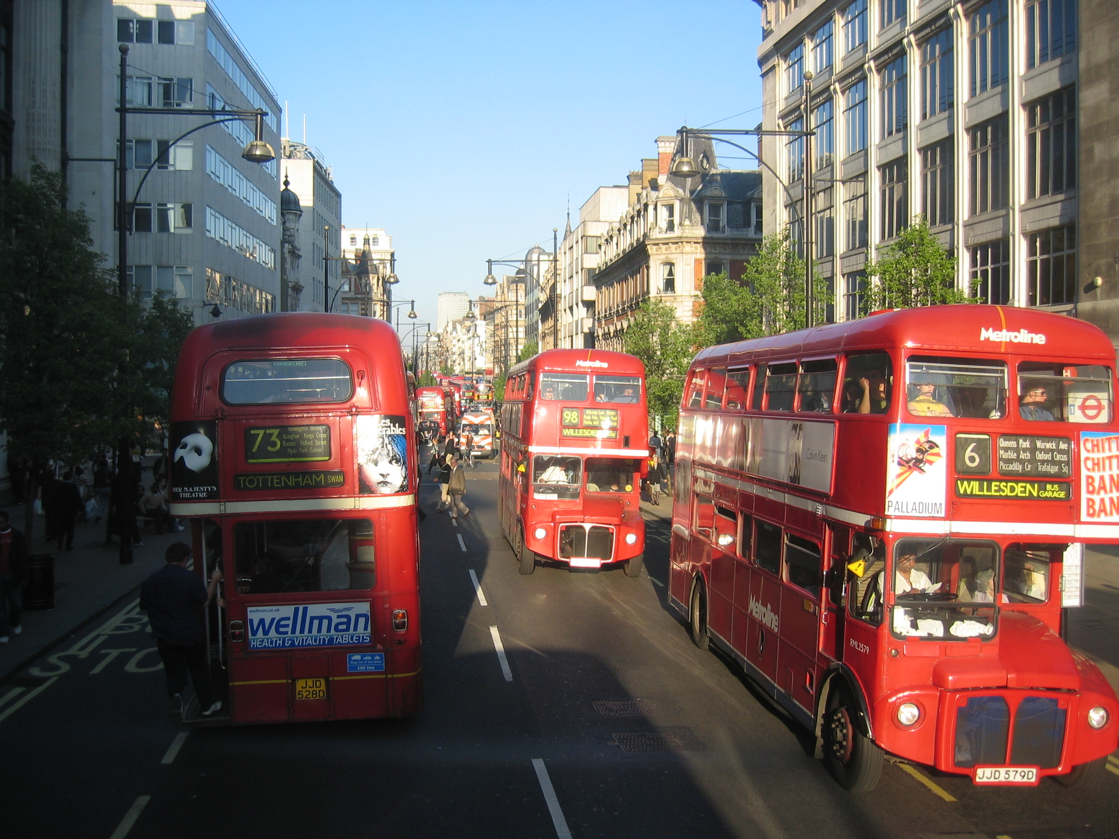 Three Routemaster buses on Oxford Street, London.